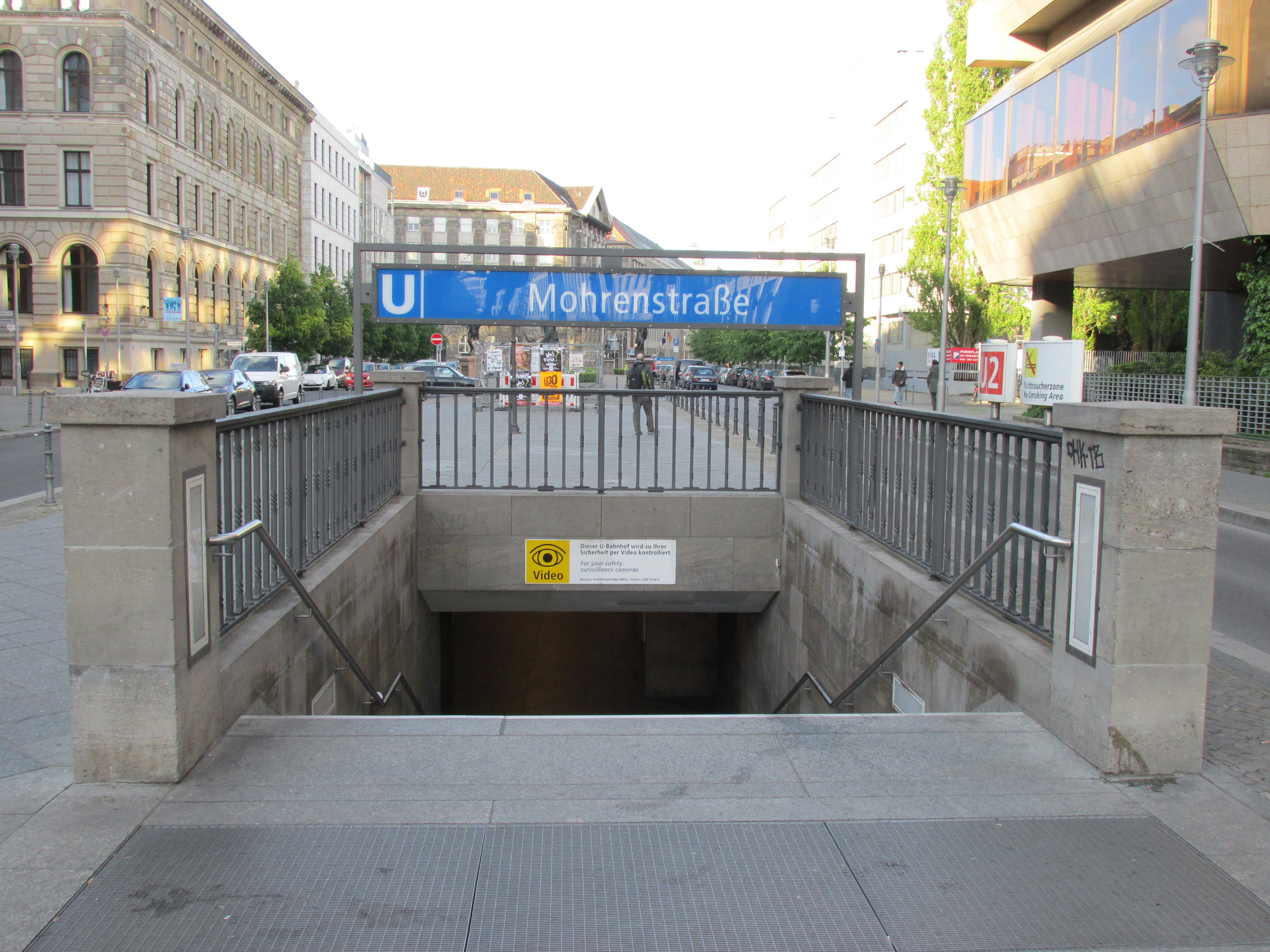 Entrance to the U-Bahnhof Mohrenstraße in Berlin-Mitte.